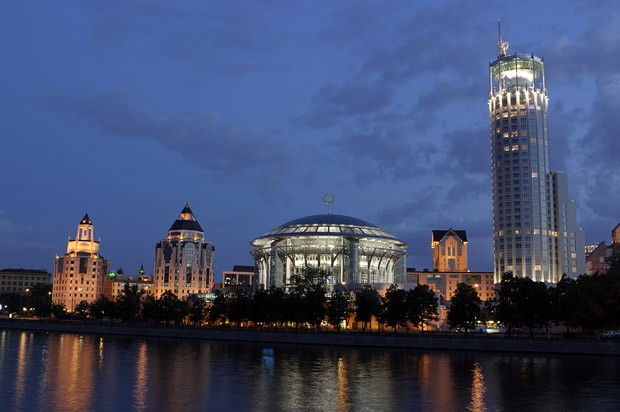 Moscow International House of Music at night